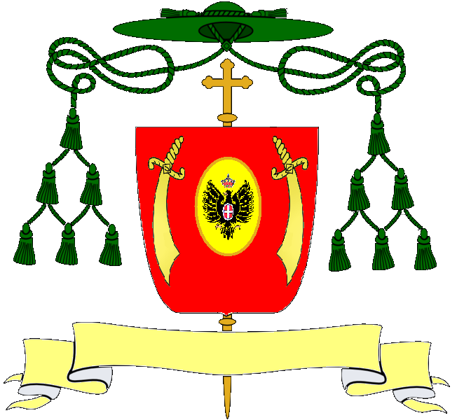 Coat of arms of Antonio Tornielli, Bishop of Novara